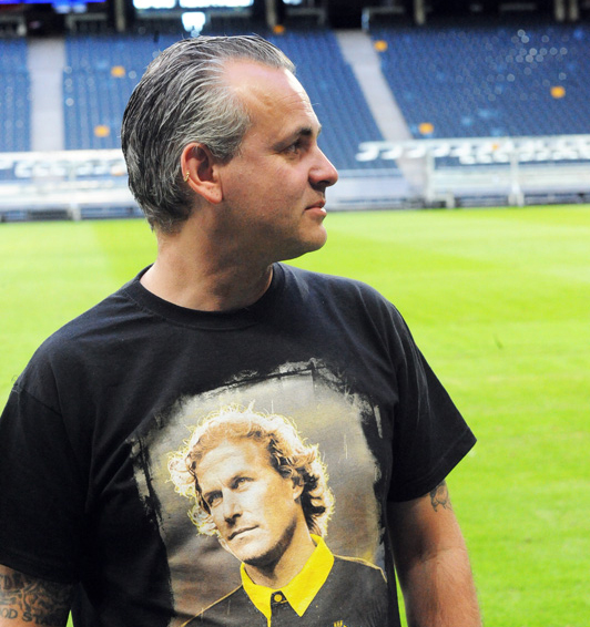 Johan Segui, chairman of AIK Fotboll